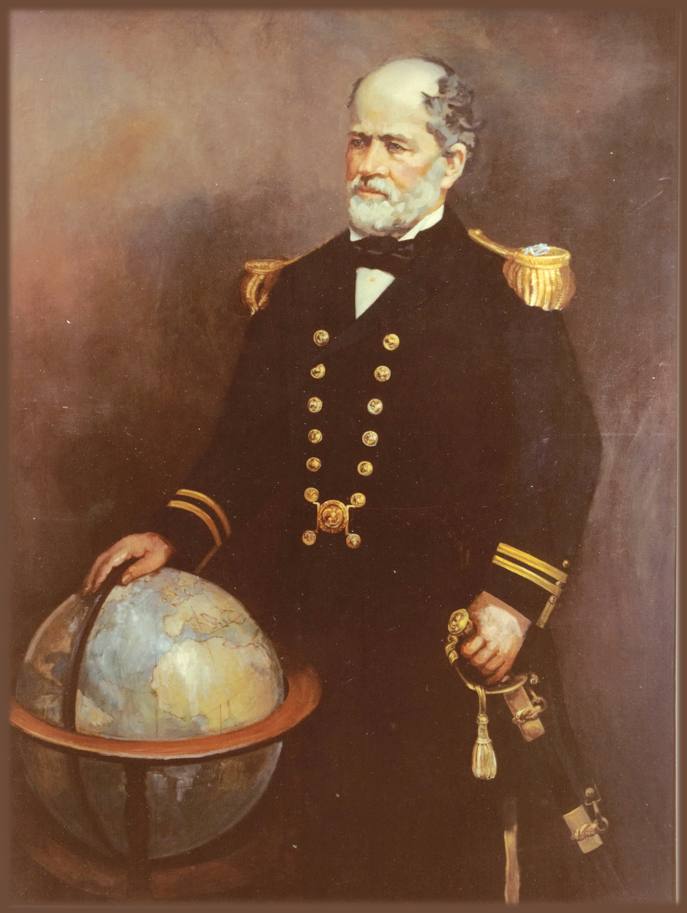 A painting by Ella Sophonisba Hergesheimer.